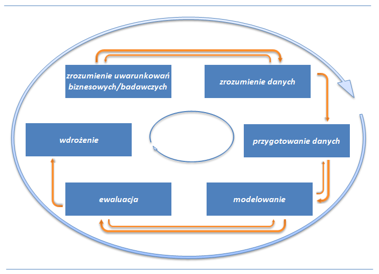 CRISP DM